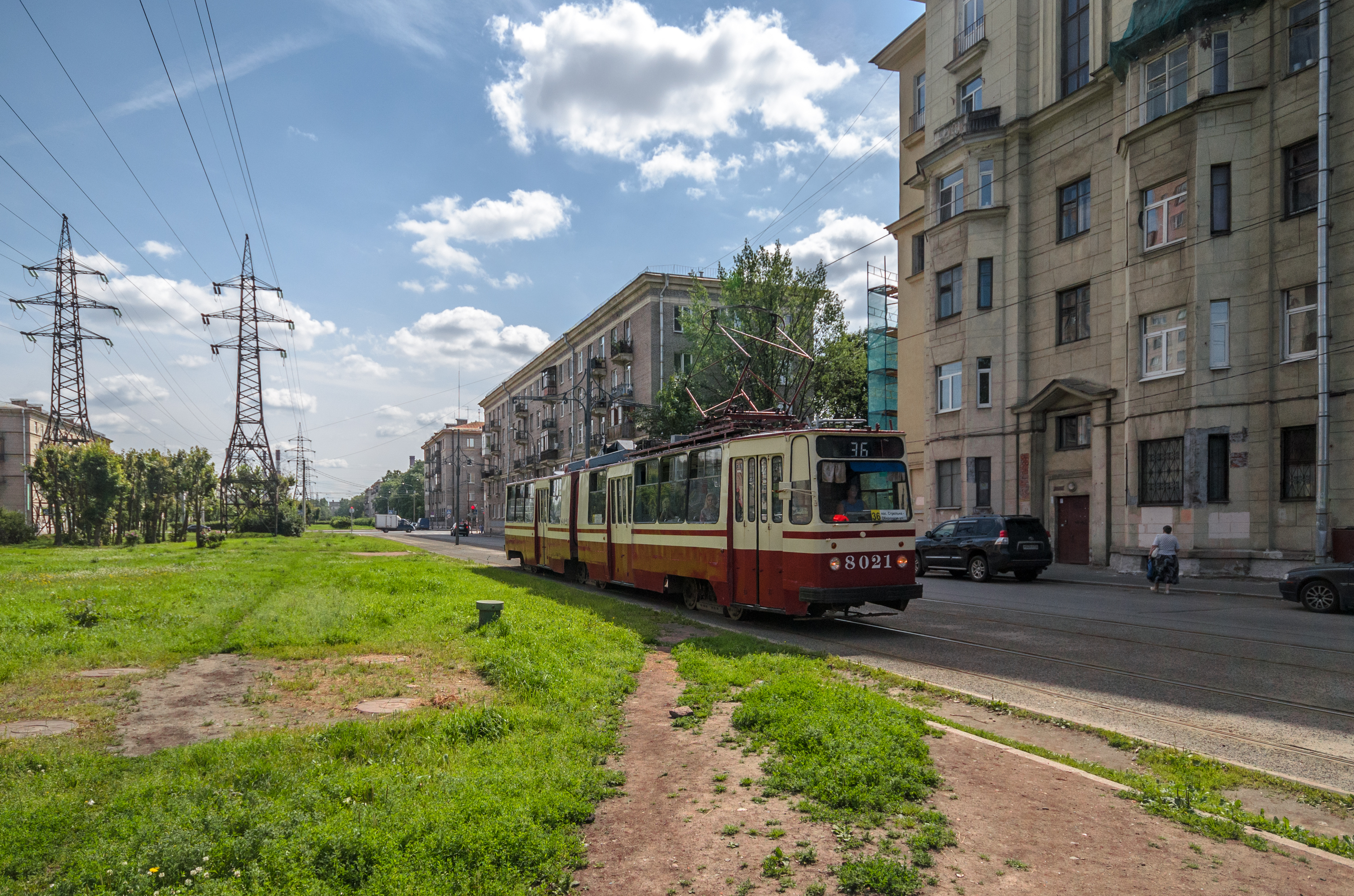 Novostroek Street in Saint Petersburg